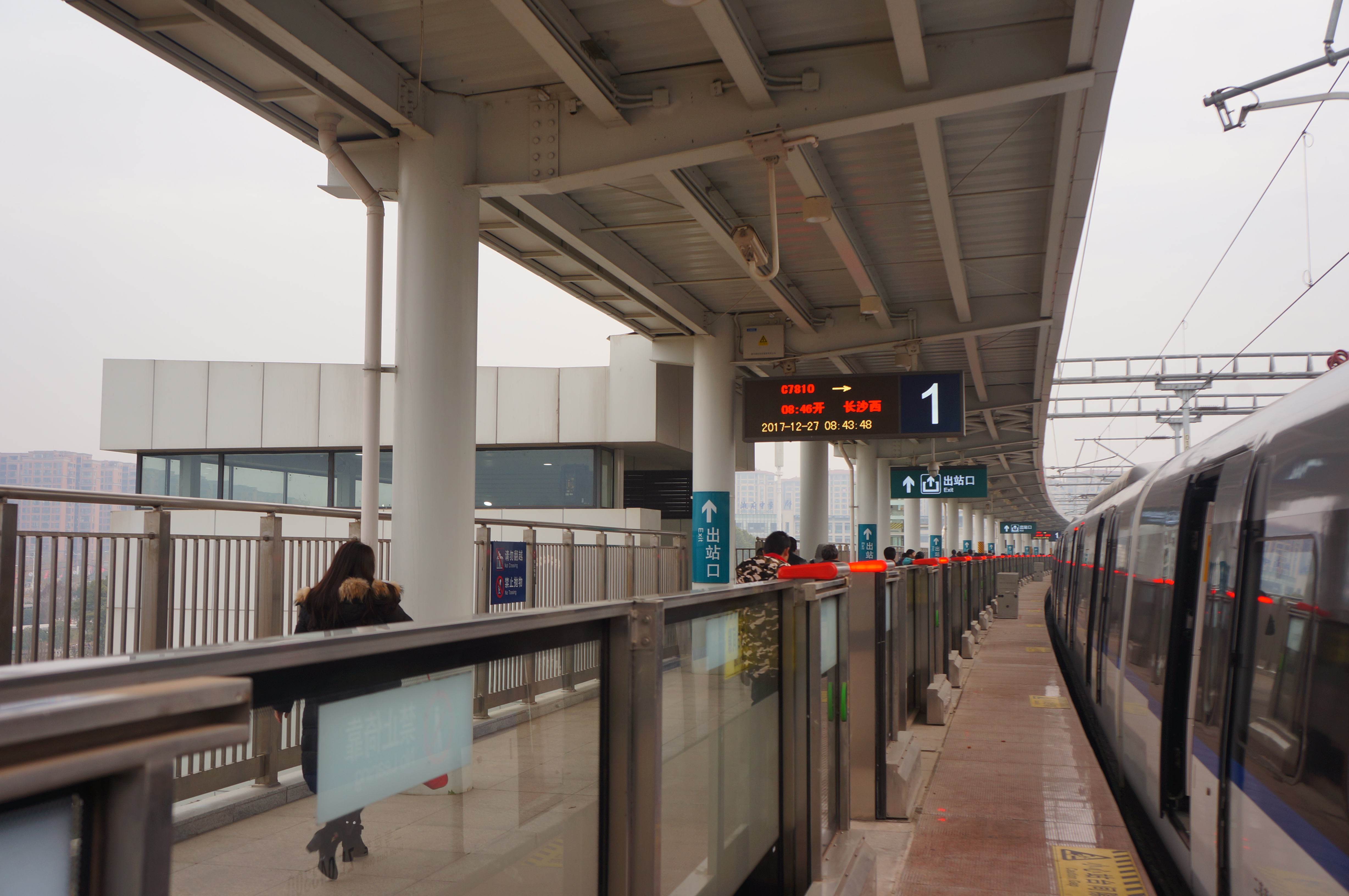 201712 Platform 1 of Xianfeng Station